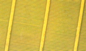 Grating of Chandra X-ray Observatory's imaging spectrometer.